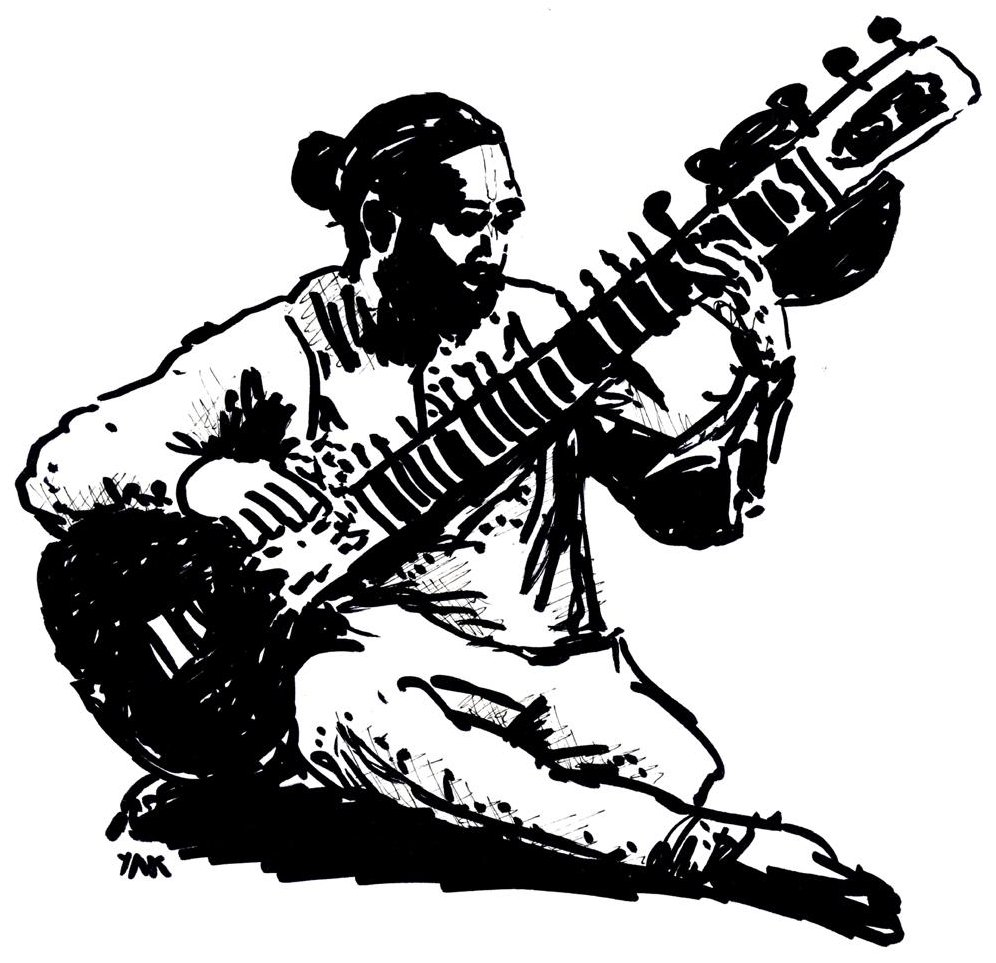 A sketch showing sitar playing position